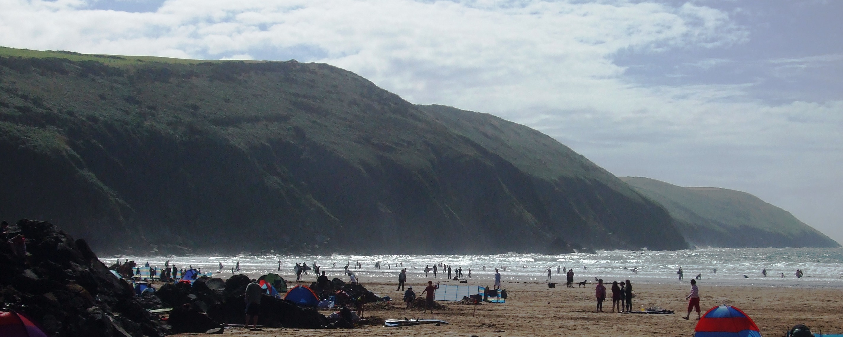 Baggy Point, Devon taken from Putsborough Beach